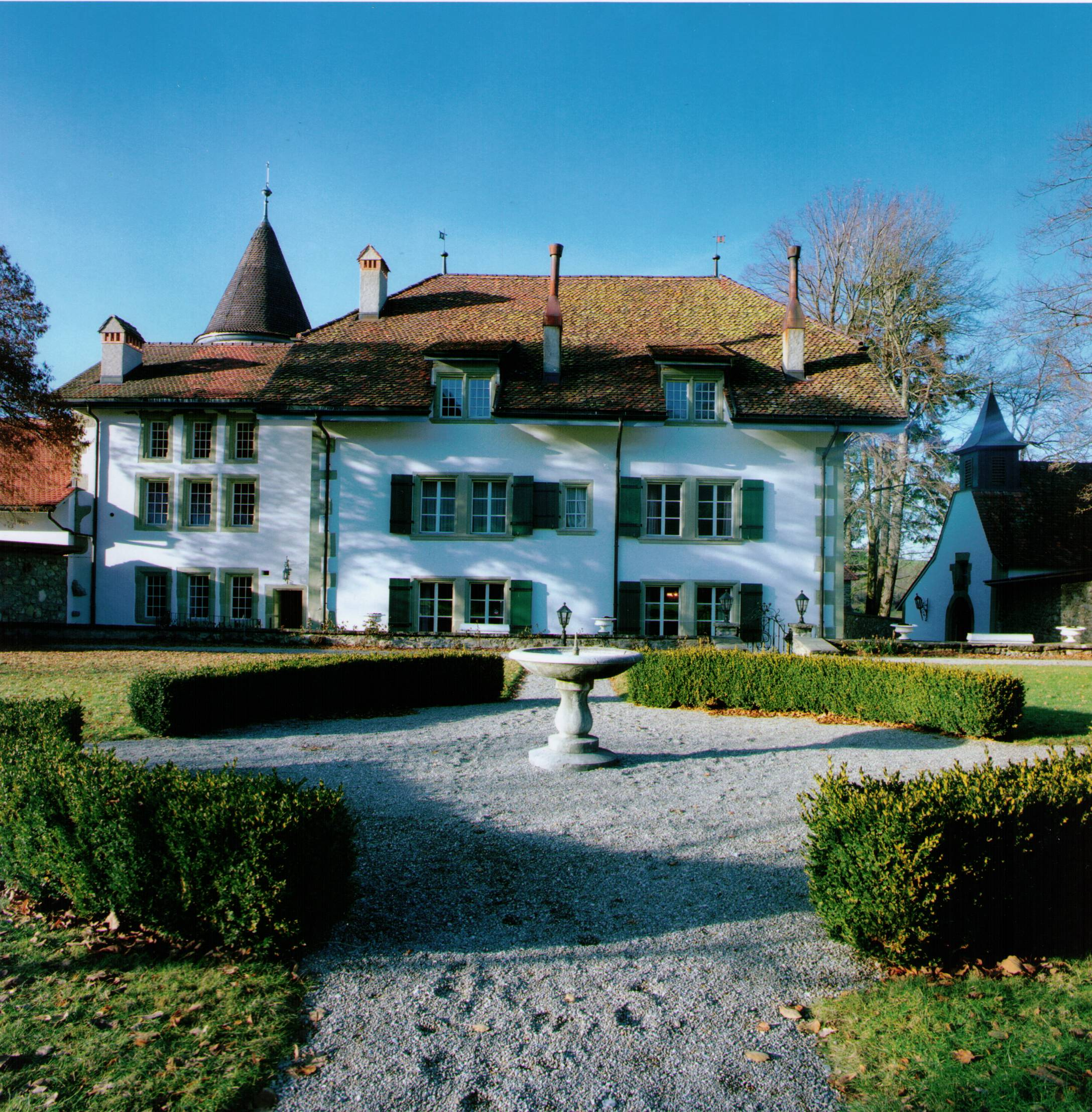 The Château de la Grande Riedera seen from the garden